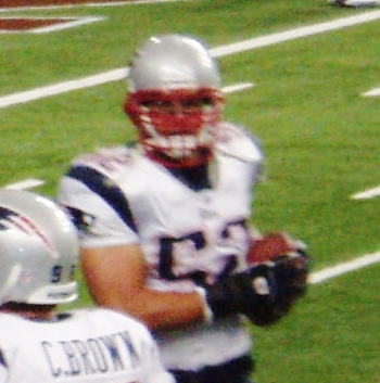 Patriots at Falcons pregame October 9, 2005 Image: C Atkeison Players here include: David Givens and Tully Banta-Cain